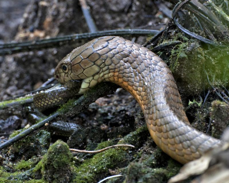 Need help in identifying the prey Sungei Buloh, Singapore 18th. September 2011 690V1571